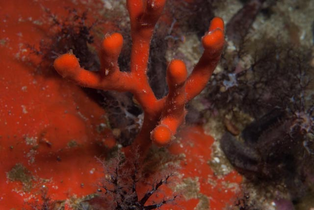 a photograph of a tree sponge, Echinoclathria dichotoma, taken in False Bay, Cape Town in 24m of water using a Fuji SP5